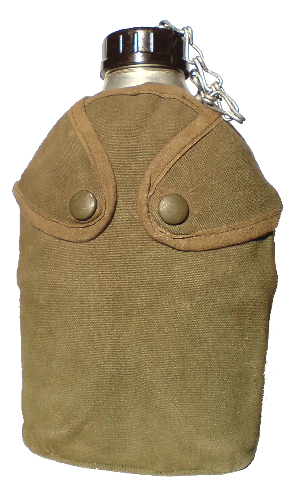 This is a gourd of the french army.